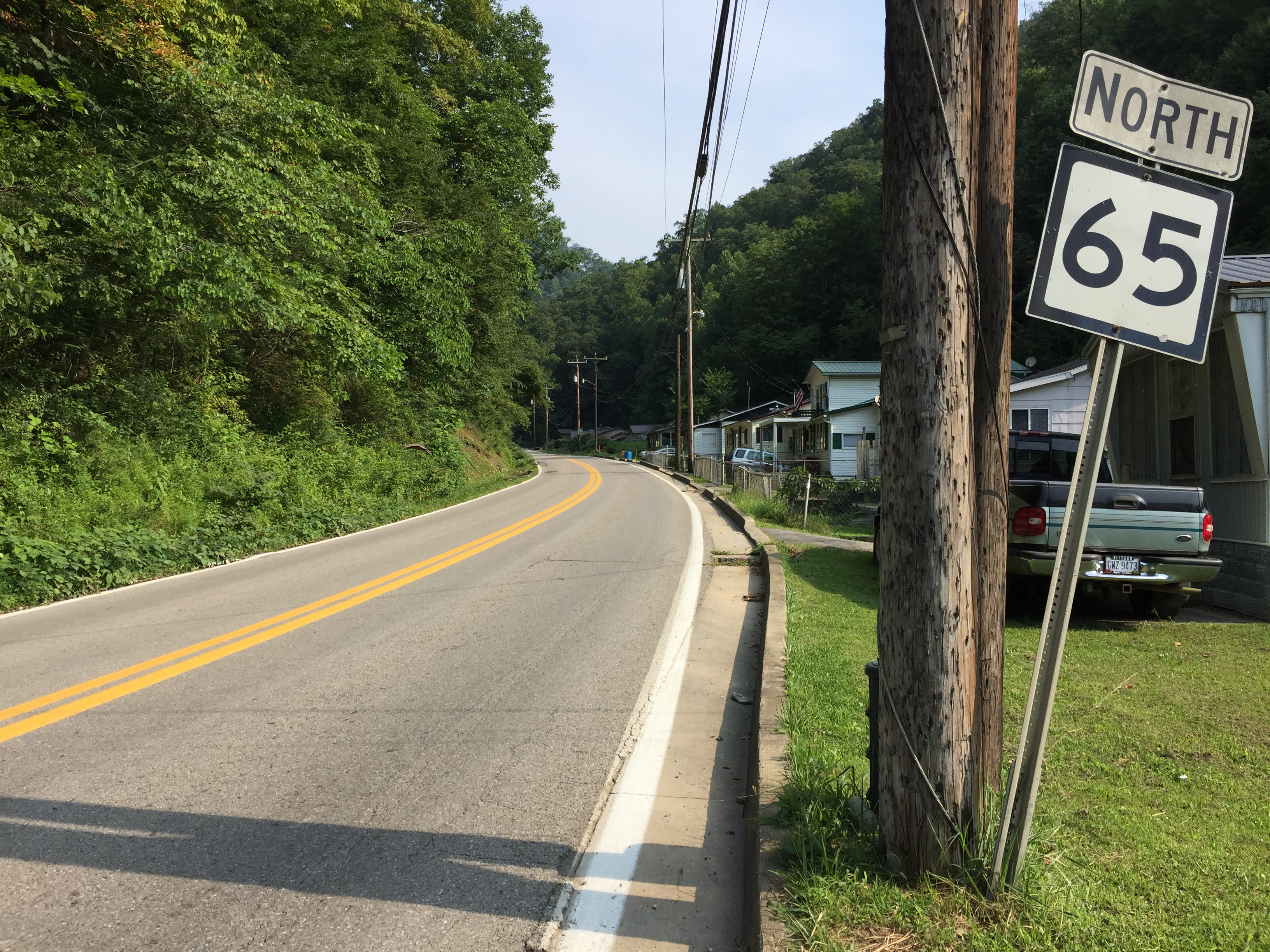 View north along West Virginia State Route 65 at Mate Creek Road (Mingo County Route 6) in Red Jacket, Mingo County, West Virginia